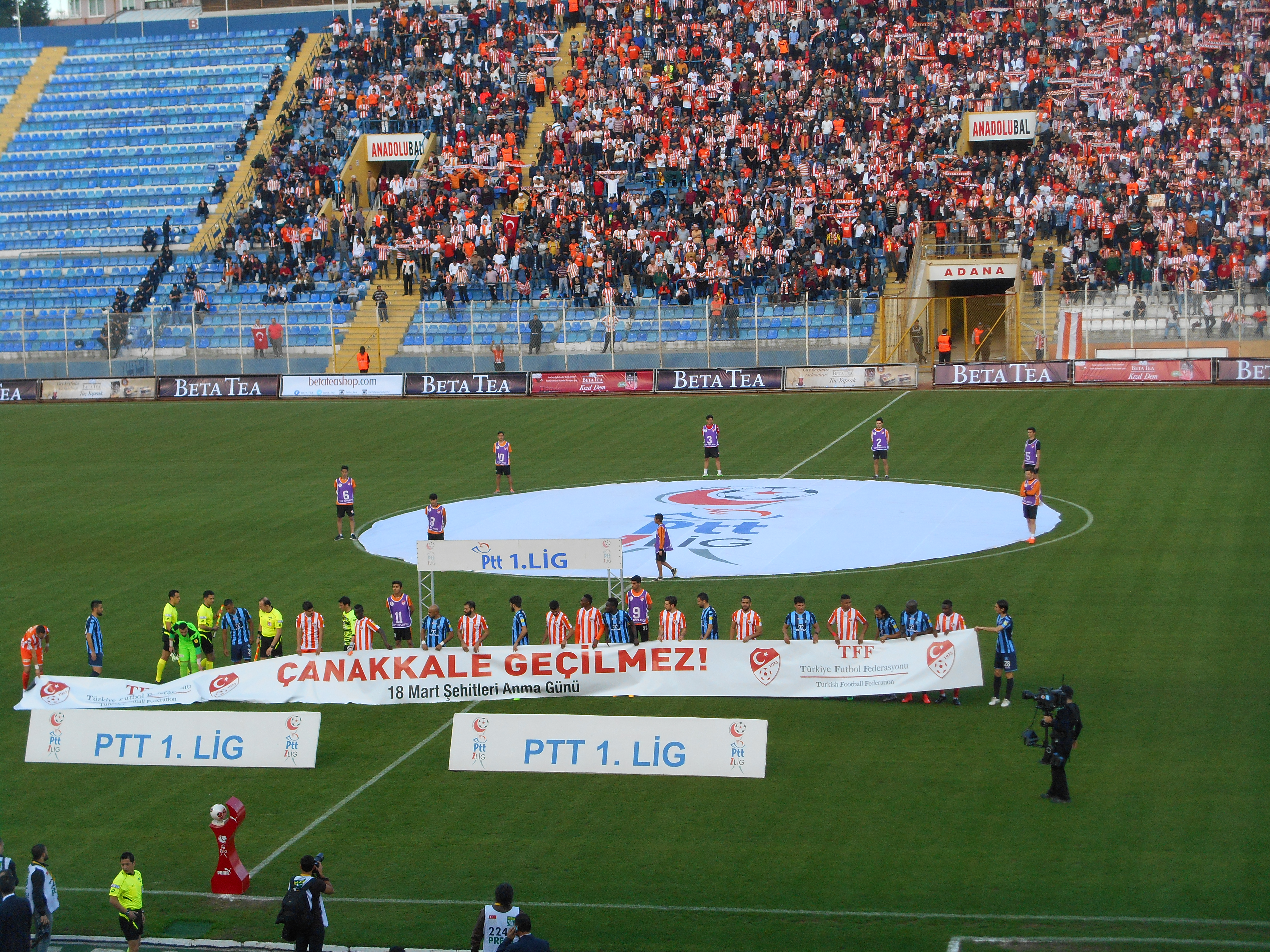 Game start at the Adana derby